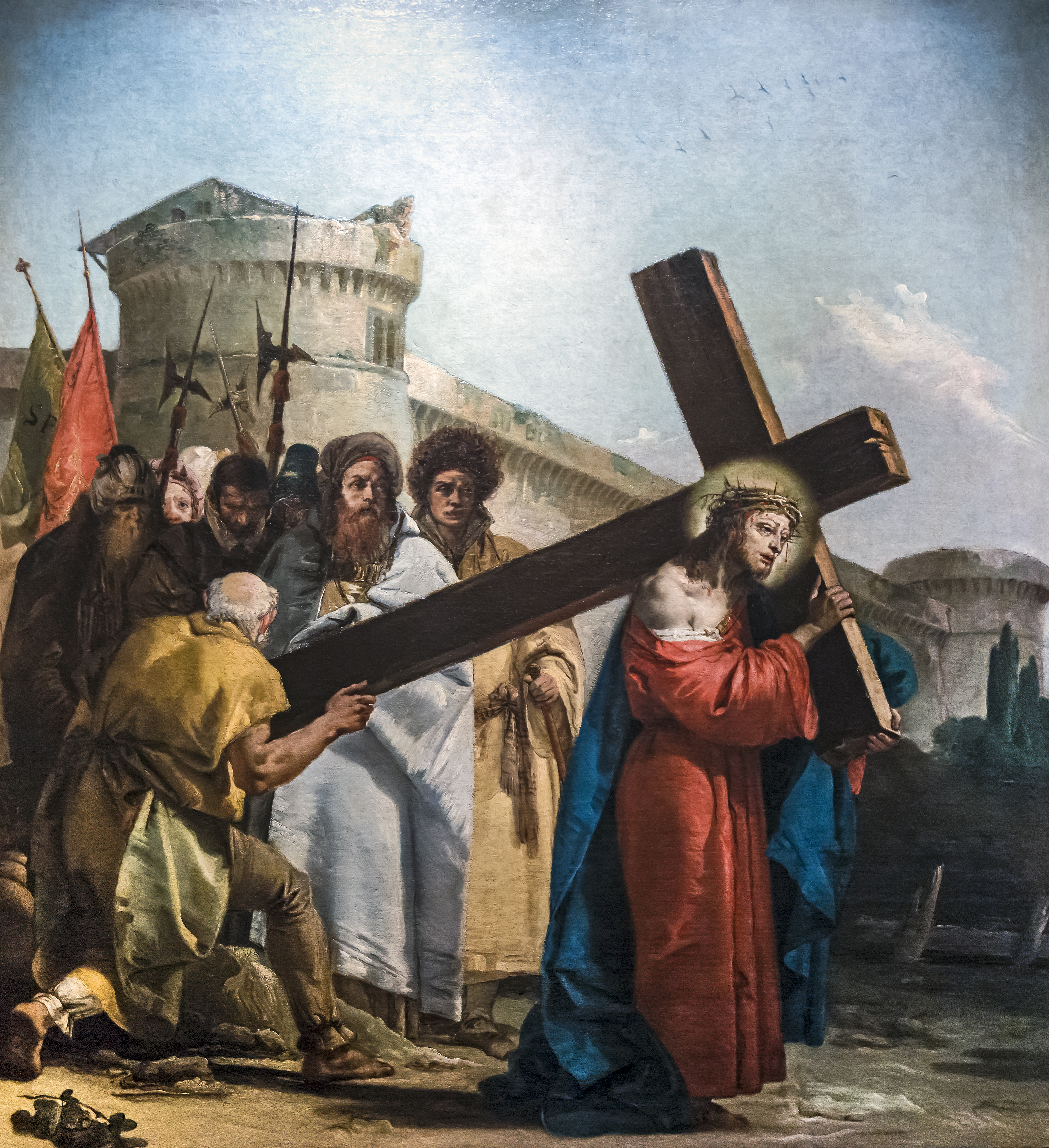 San Polo (church) - Oratory of the Crucifix - VIA CRUCIS V - Simon of Cyrene helps Jesus carry the cross by Giandomenico Tiepolo. Oil on canvas (1745 -1749).